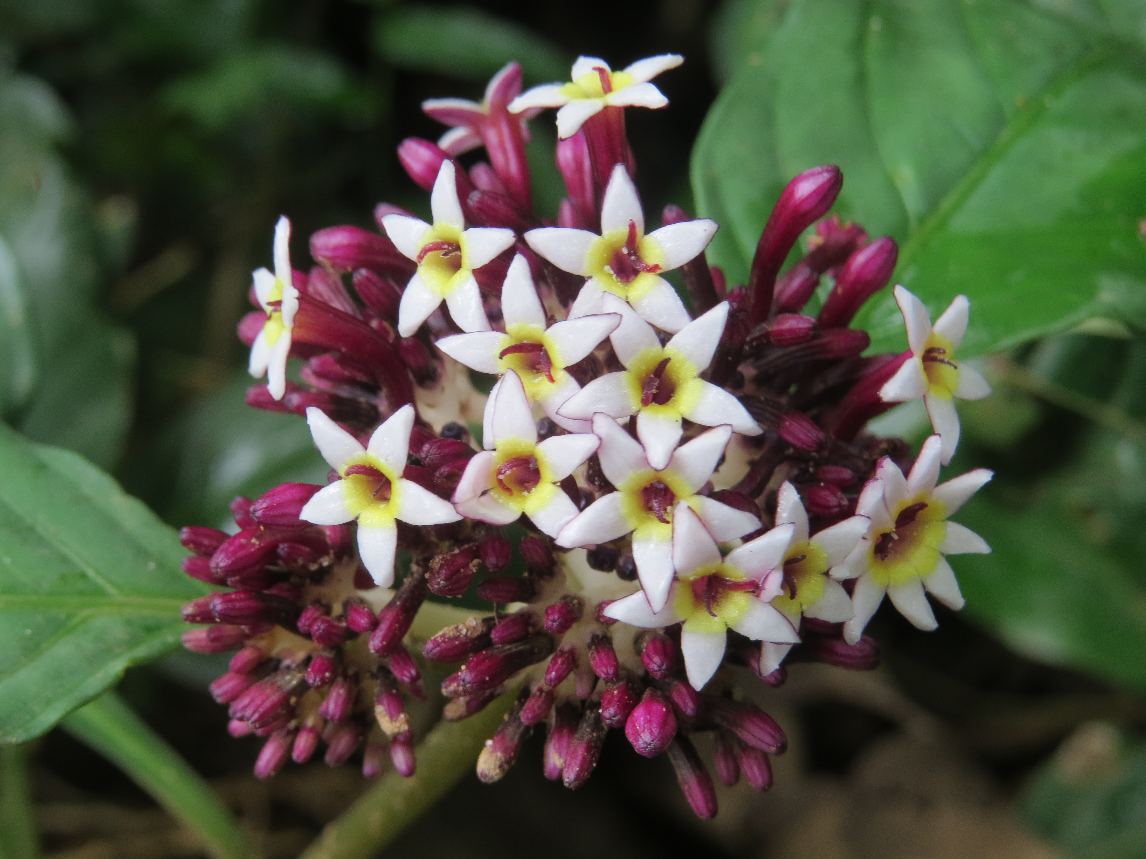 Chassalia curviflora